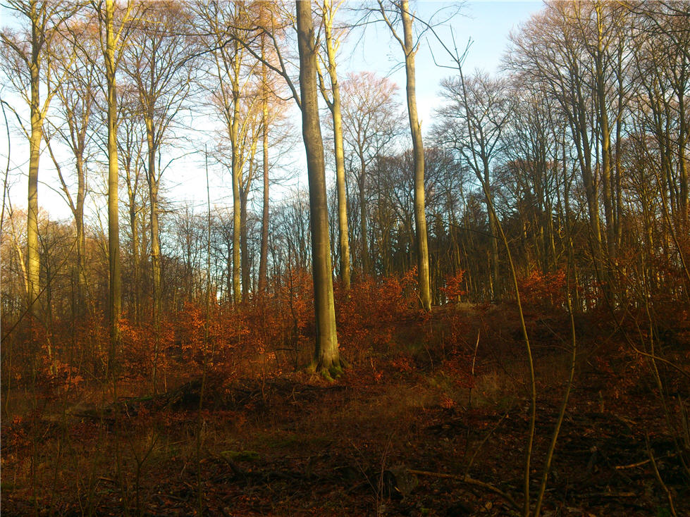 Beech trees in Folehaveskoven (Forest north of Copenhagen, Denmark)